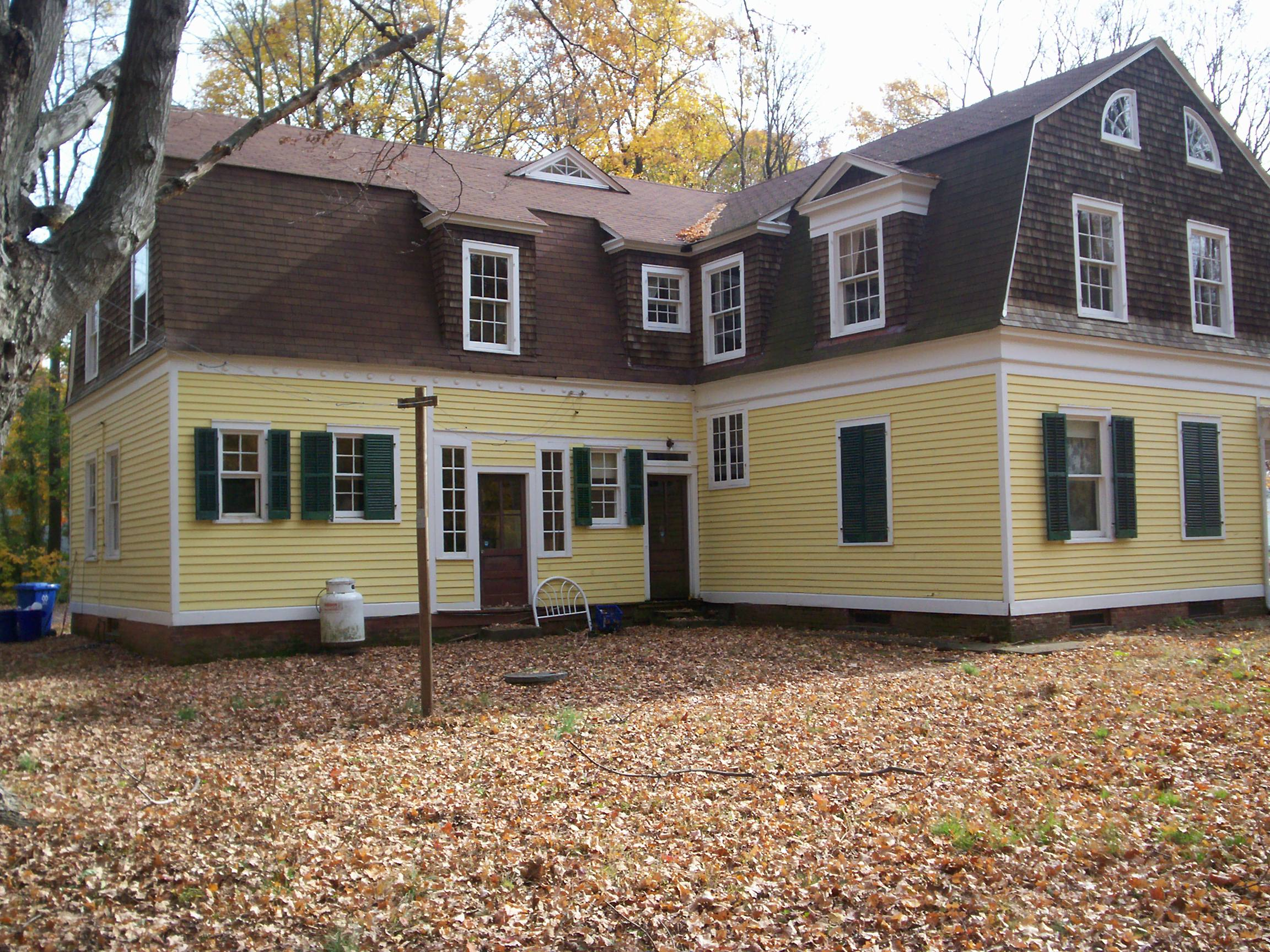 Tulipwood home in Somerset, Franklin Township, New Jersey, now preserved by the Meadows Foundation.